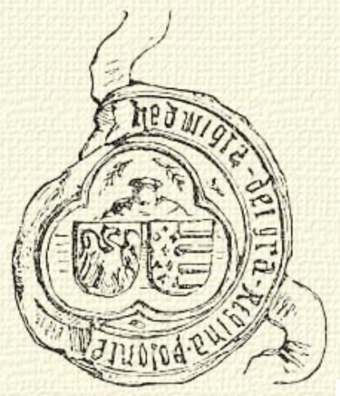 Seal of Hedvig of Anjou (1374-1399), queen of Poland